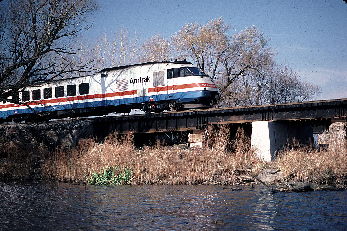 Amtrak #62, the "Mohawk" (Buffalo - New York) crossing the Seneca River near Savannah NY 11/25/84. Scanned from 35mm slide.